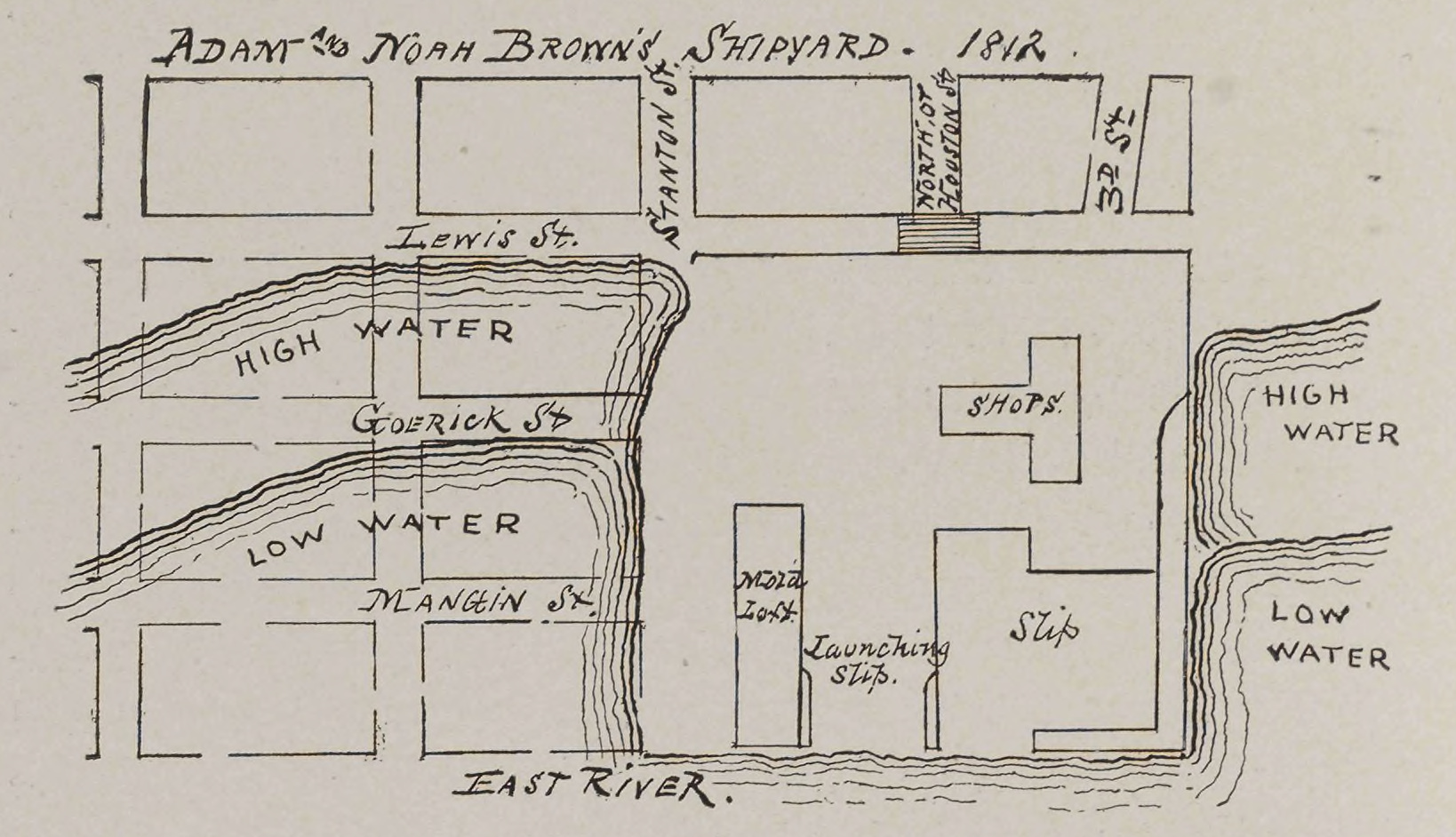 Adam & Noah's Brown's Shipyard, 1812, page 40